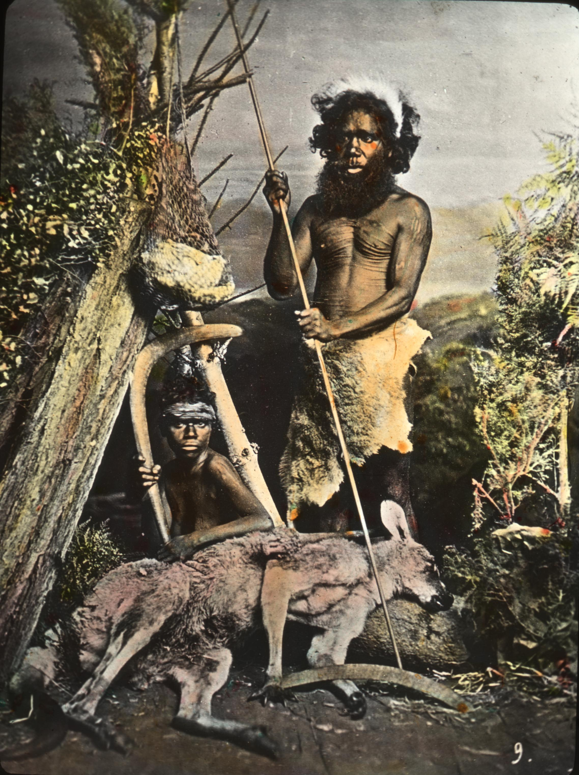 Image Title: Native Australian Image Description from historic lecture booklet: "In central and western Australia there are many tribes of native people who live in most primitive ways. Their relationship to the native peoples of New Zealand, of the islands of the Pacific, of Asia, and of Africa is not known, but they are usually classes with the black race." Original Format: Lantern slides Original Collection: Visual Instruction Department Lantern Slides Item Number: P217:set 039 003